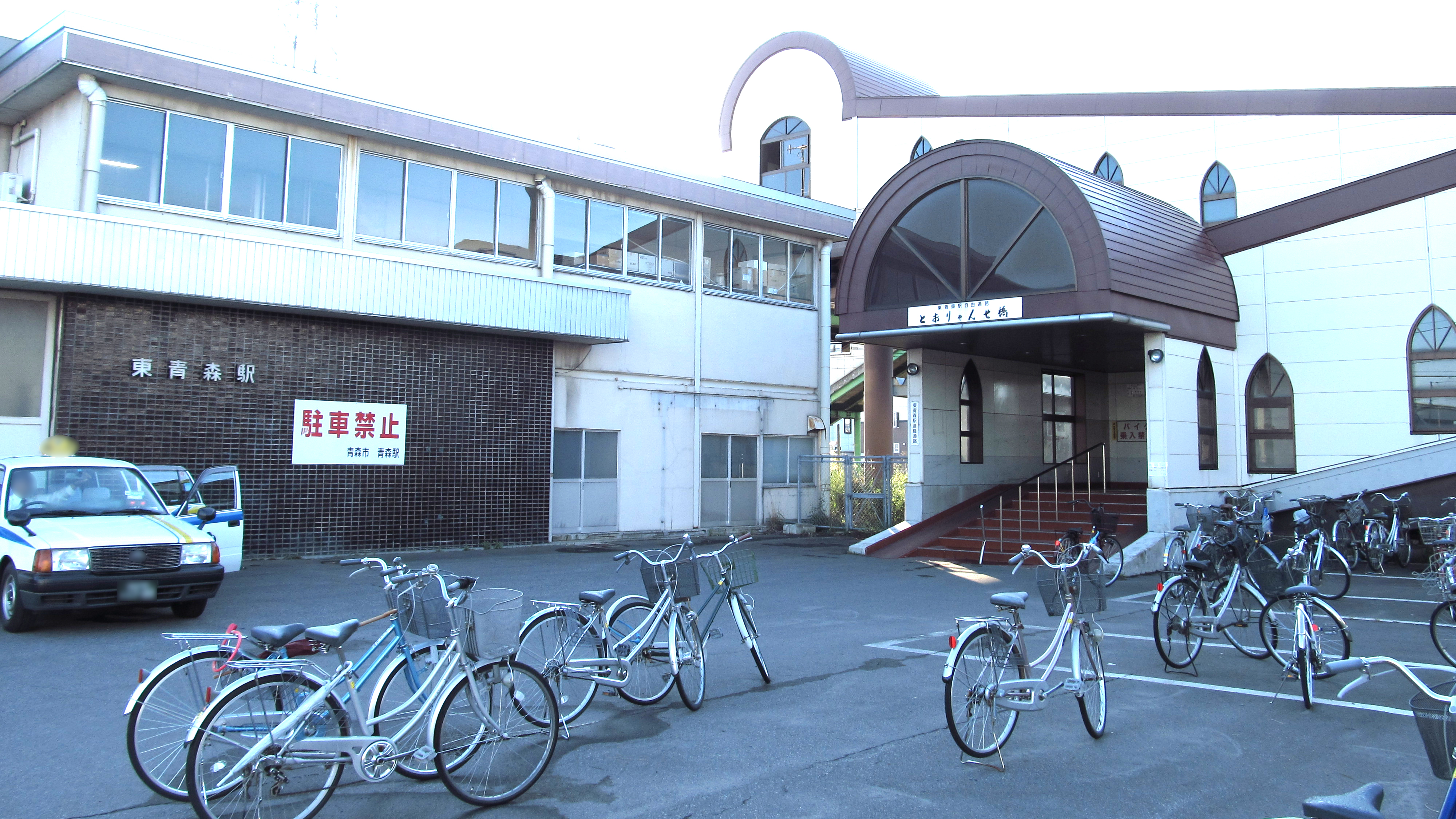 The north-side entrance to the Higashi-Aomori Station on the Aoimori Railway Line in Aomori city, Aomori prefecture, Japan